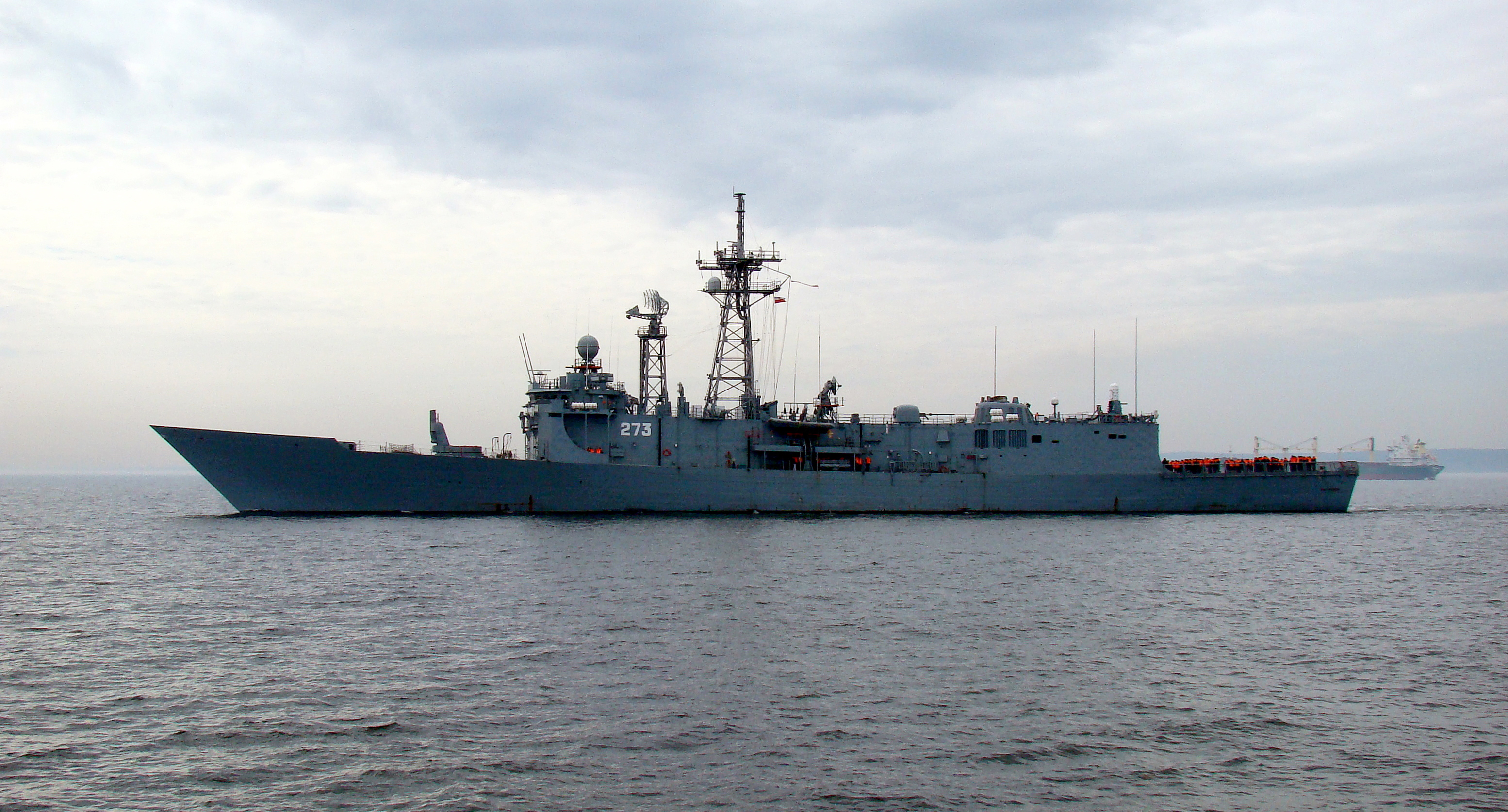 ORP Gen. T. Kościuszko, Oliver Hazard Perry-class guided-missile frigates in the Polish Navy